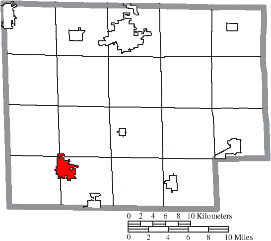 Map of the municipal and township boundaries of Huron County, Ohio, United States, as of the 2000 census, with the location of the city of Willard highlighted. Township borders are shown only in unincorporated areas in order to differentiate incorporated and unincorporated areas more clearly.